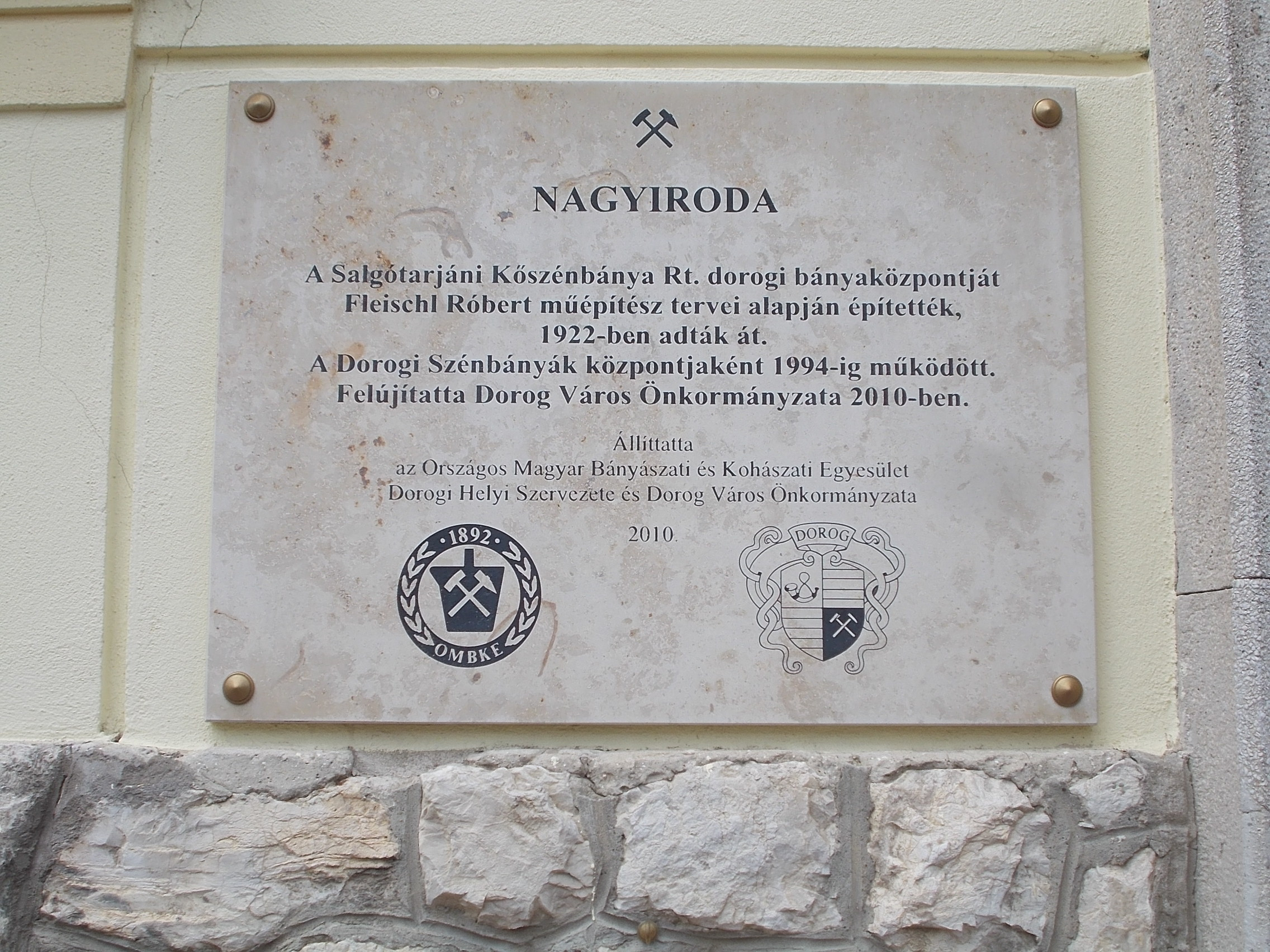 Plaque on the wall of the former mining center (HQ) of the Salgótarján Coal Mines public limited company. - Hantken Street, Dorog, Komárom-Esztergom County, Hungary.